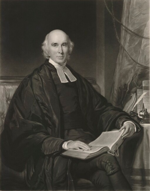 Portrait of John Kenrick (1788–1877), English classical historian.